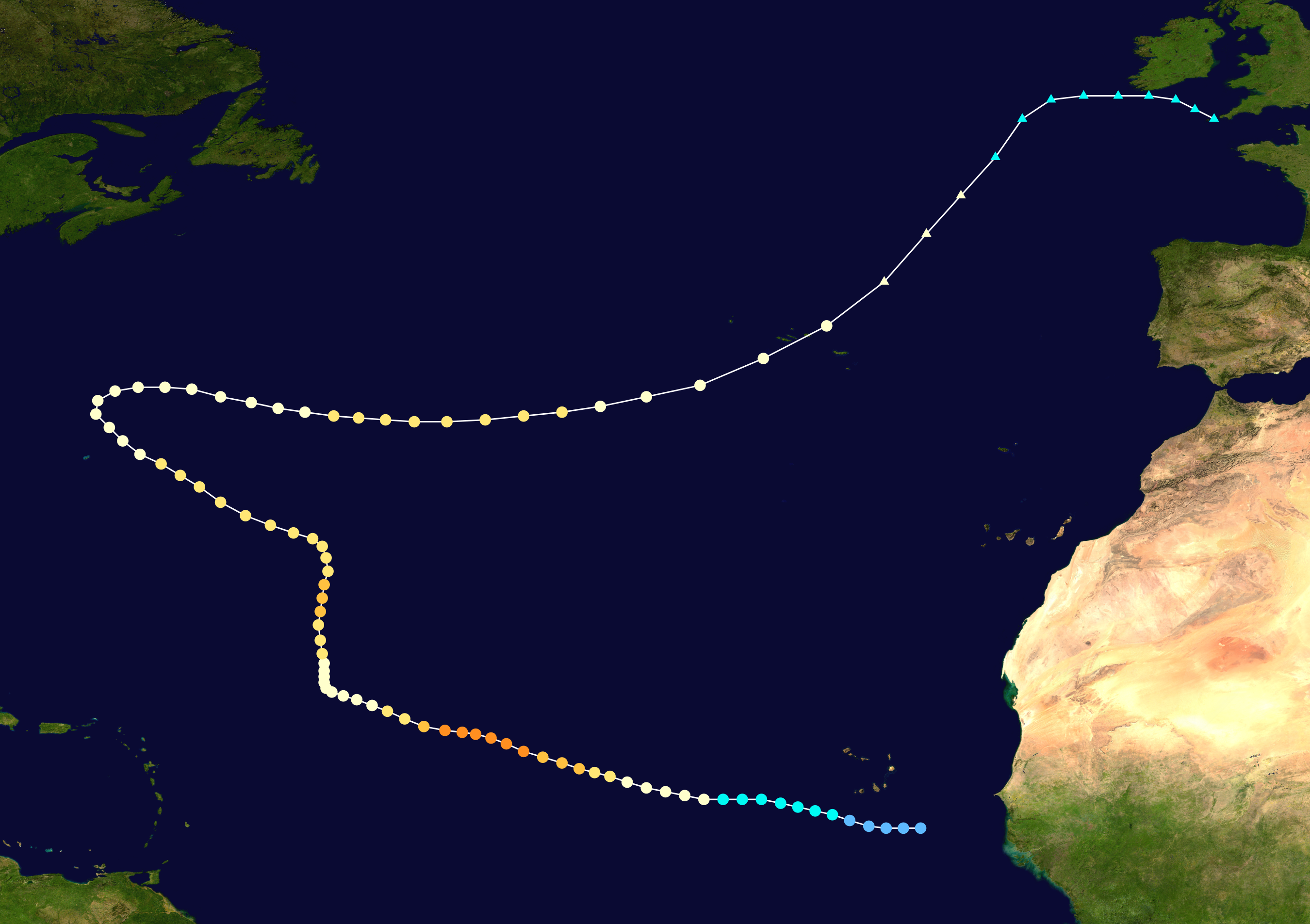 Hurricane Carrie (1957) track. Uses the color scheme from the Saffir-Simpson Hurricane Scale.